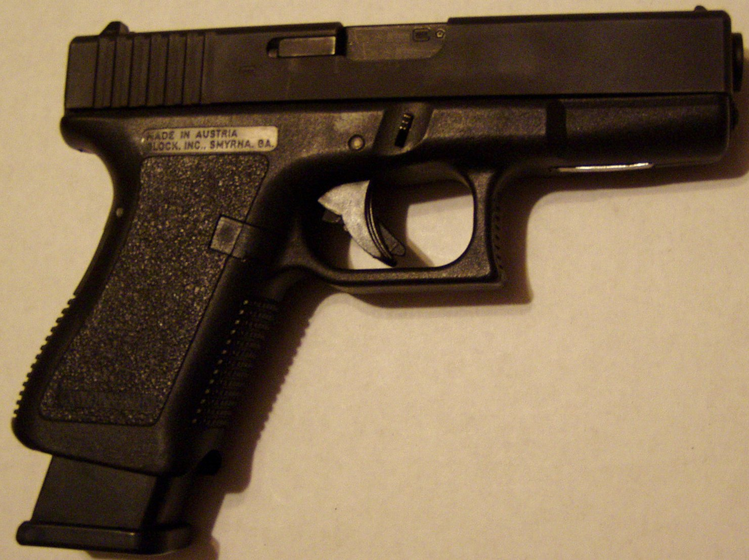 This image of a Glock 19 pistol loaded with an "extended" 17 round Glock 17 magazine was taken by George William Herbert (Georgewilliamherbert) on Jan 19, 2006. This image remains copyrighted, but is available for Wikipedia or any other use under the Creative Commons - Attribution Share Alike License rev 2.5. Author: George William Herbert